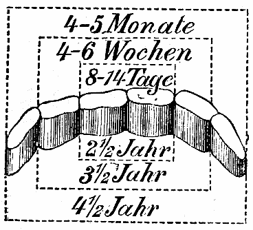 Foretooths of a horse. On top time of break out: 4-5 months, 4-6 weeks, and 8-14 days. Below time of transition: 2 ½ years, 3 ½ years, and 4 ½ years.